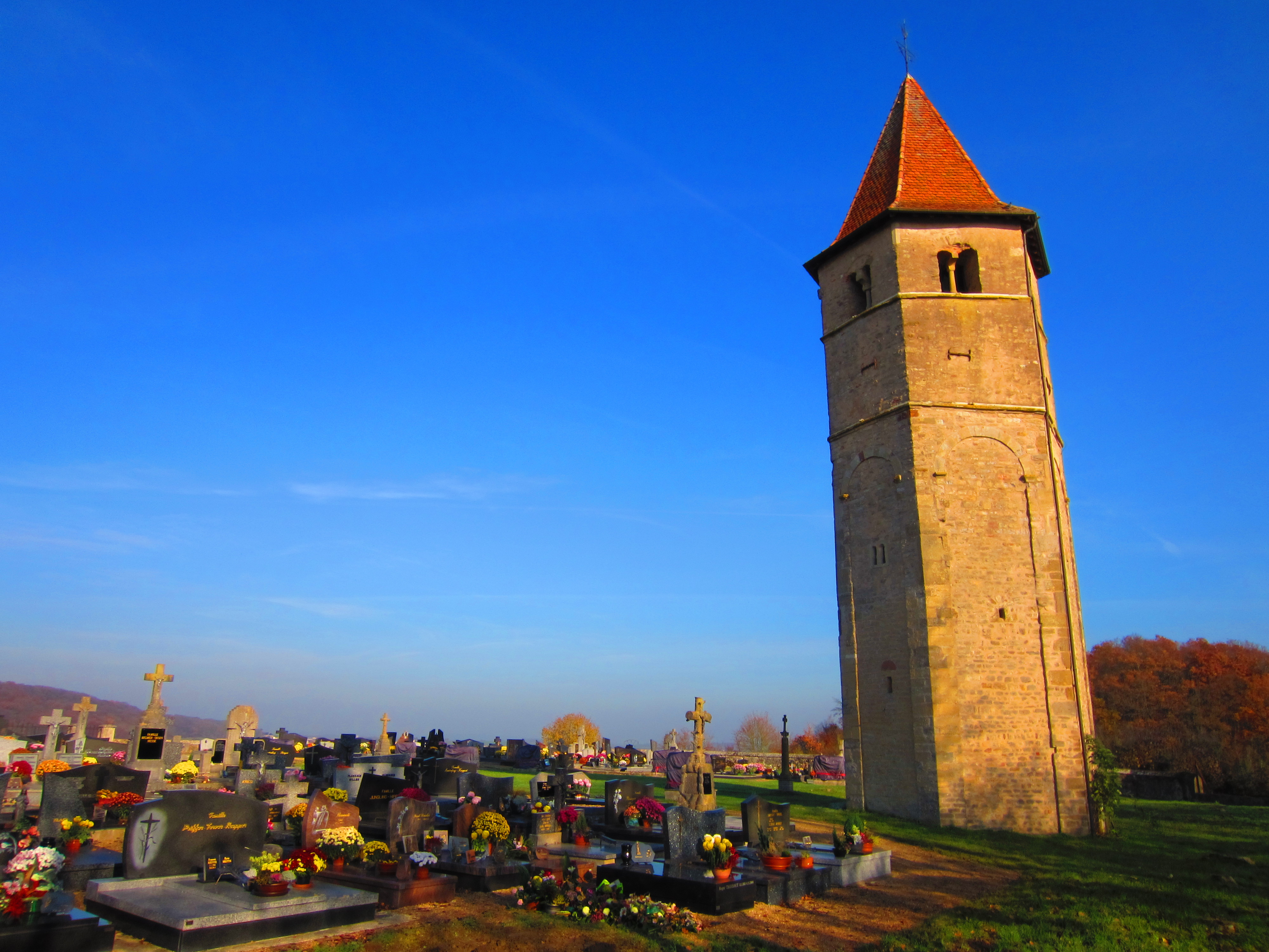 Description Tour Usselskirch Boust Date21 November 2011Sourcemon appareil photoAuthorAimelaimePermission (Reusing this file) Tour Usselskirch Boust